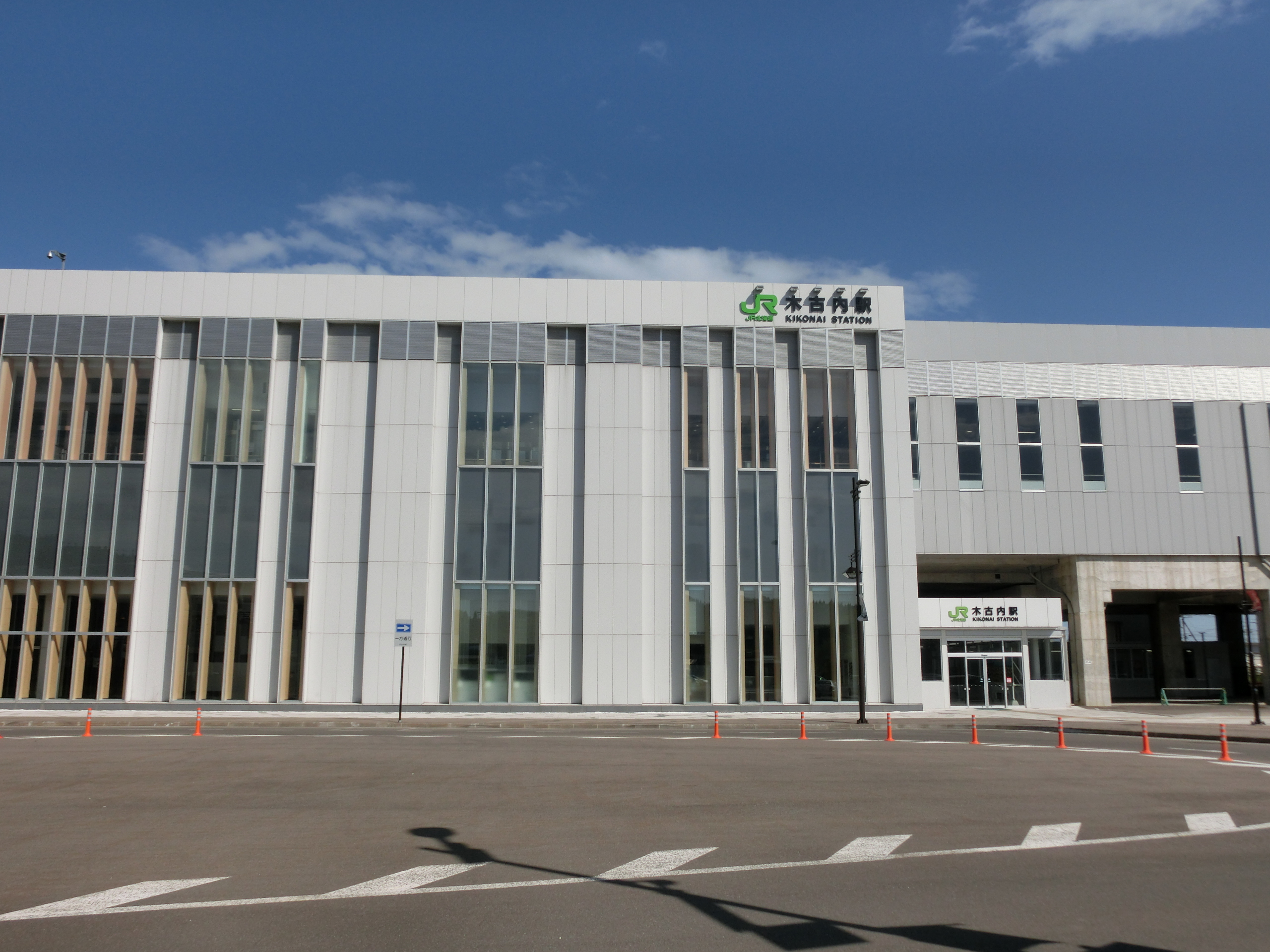 Kikonai Station North Exit